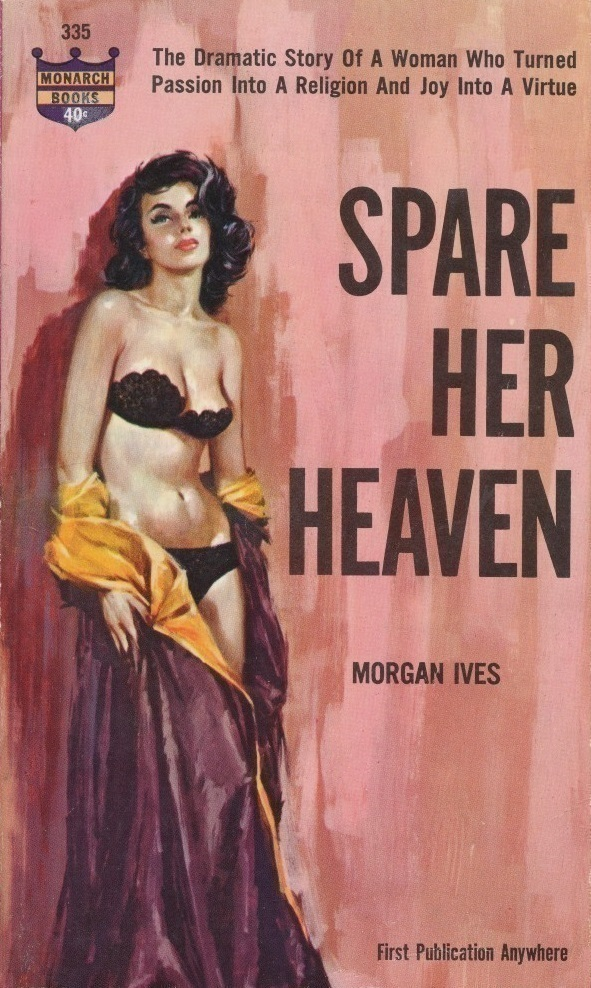 Cover of "Spare Her Heaven" by Morgan Ives (Marion Zimmer Bradley), Monarch Book 1963.